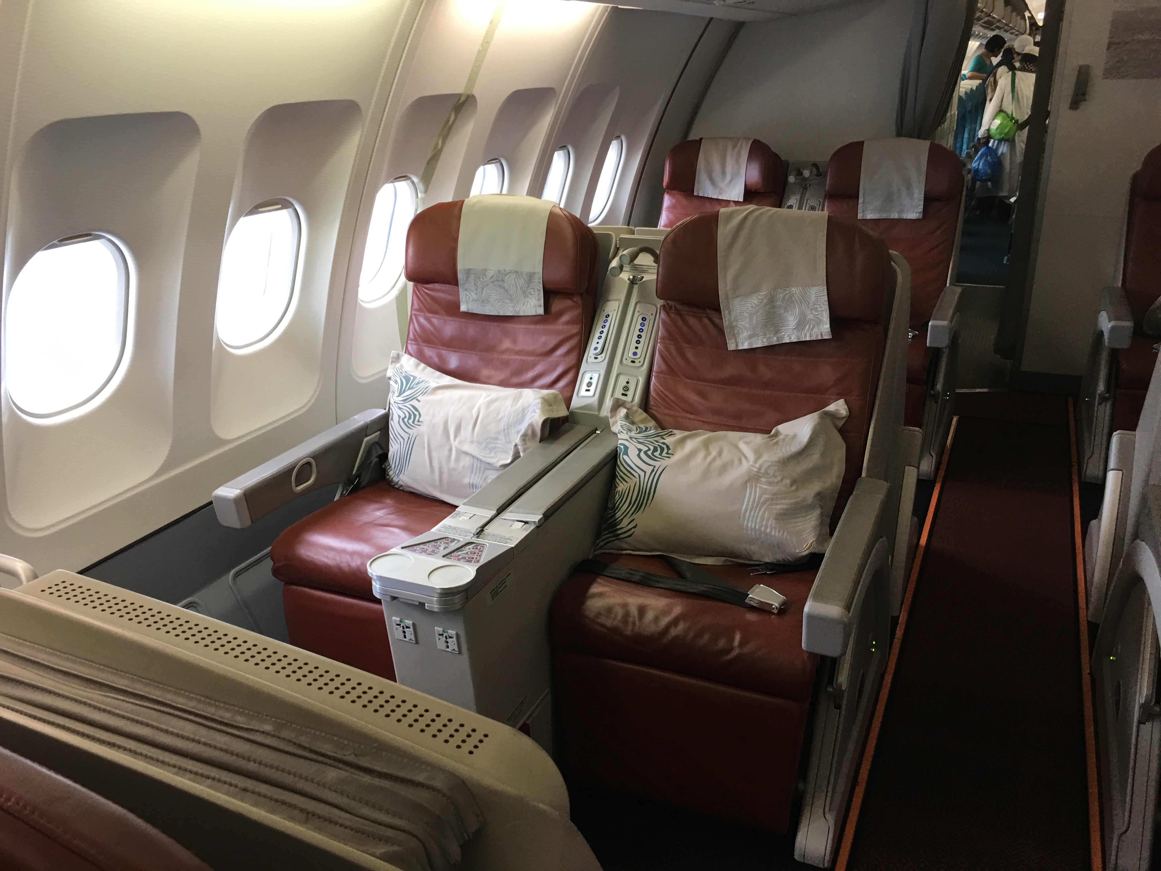 Business Class Seating on the Airbus A330-200 on SriLankan Airlines